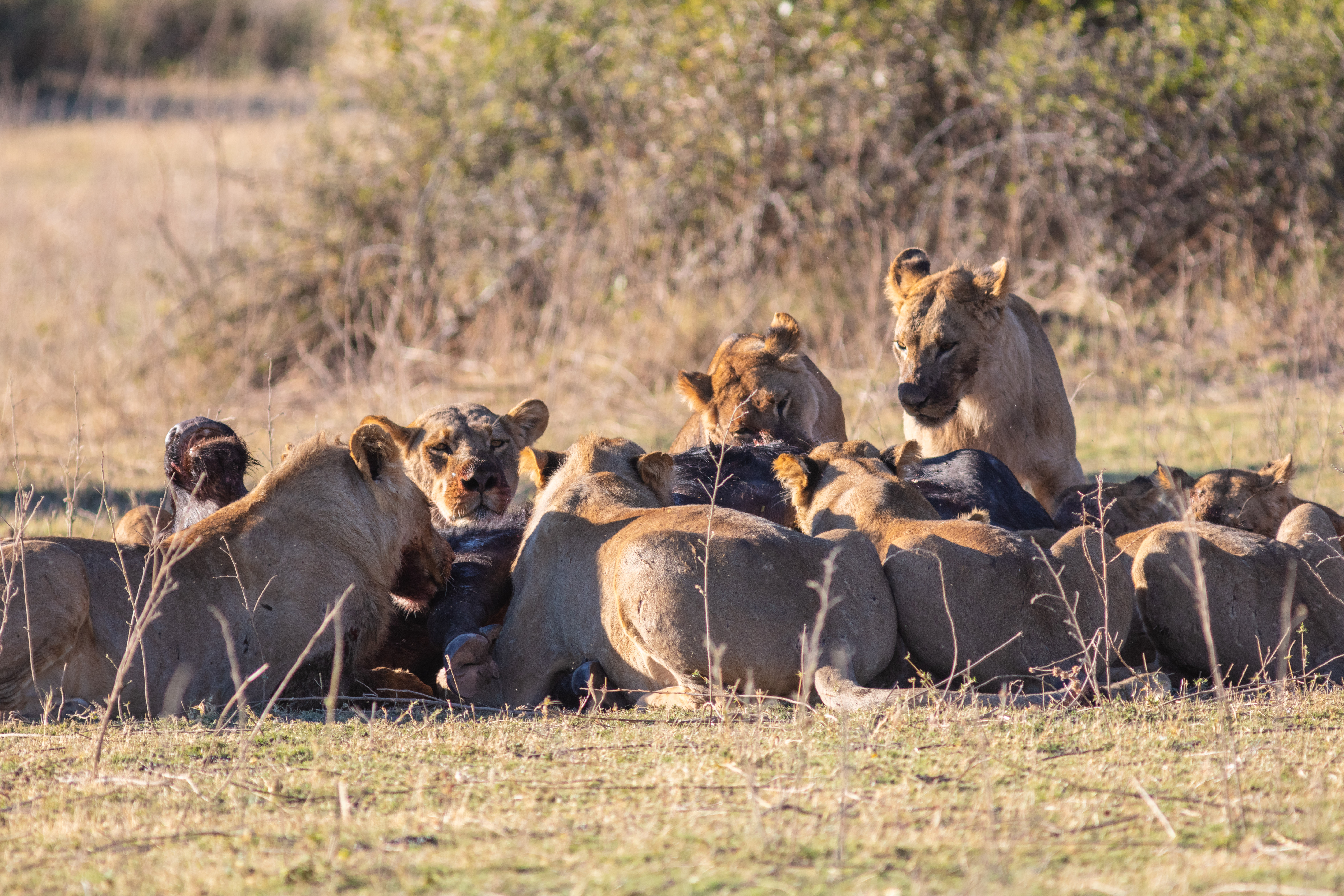 Lions (Panthera leo) devoring an African buffalo (Syncerus caffer caffer), Chobe National Park, Botswana